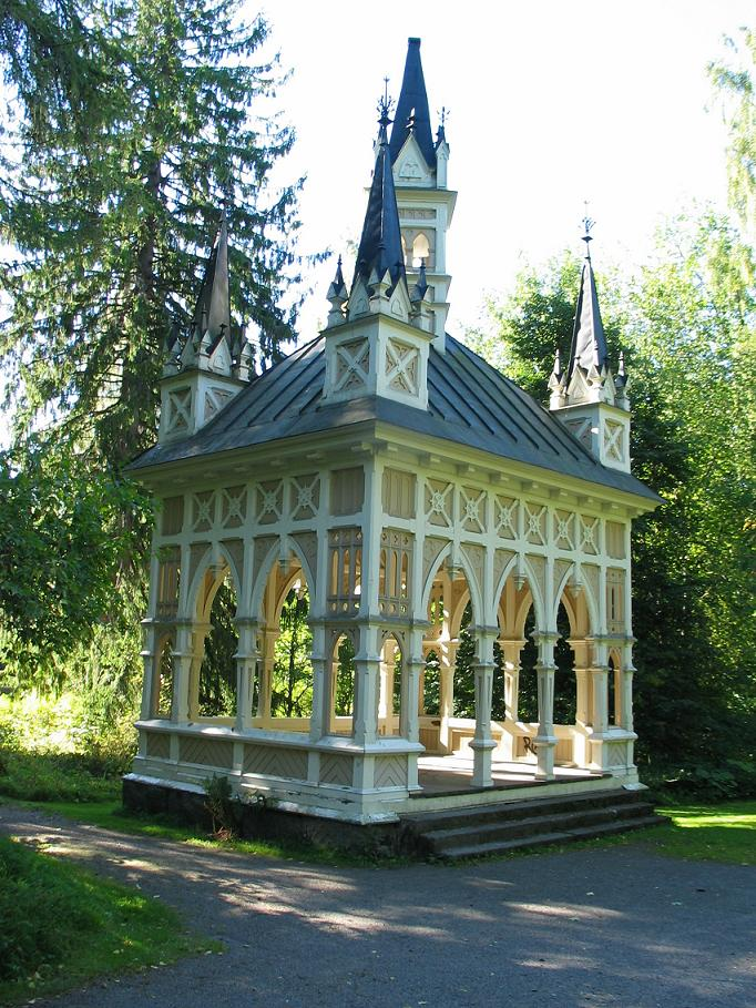 temple of the rouses in the Aulanko Nature Reserve next to Hämeenlinna